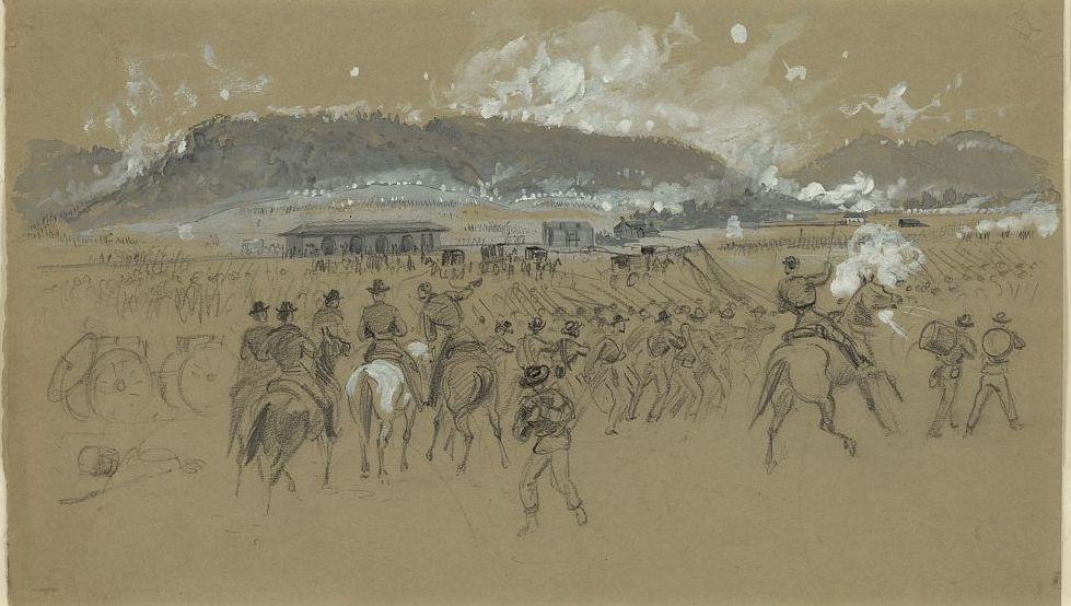 Battle of Ringgold Gap drawing on tan paper: pencil, Chinese white, and black ink wash ; 19.7 x 33.3 cm.